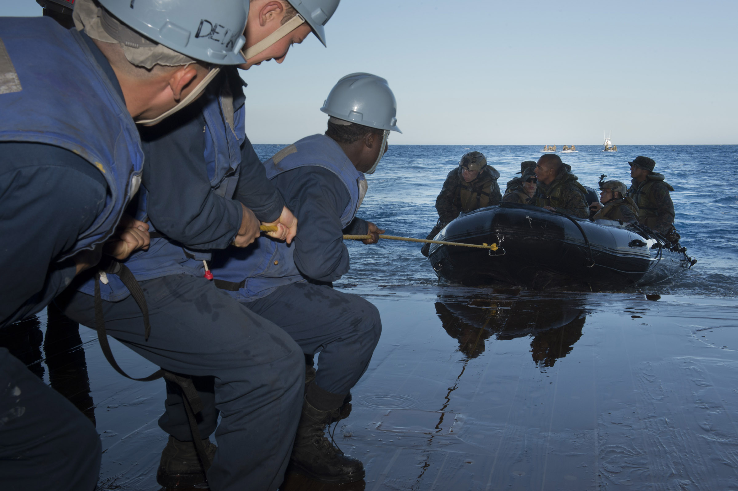 U.S. Sailors pull a team of Marines with the 31st Marine Expeditionary Unit into the well deck of the amphibious transport dock ship USS Denver (LPD 9) as they return from a beach raid exercise in the Coral Sea Aug. 8, 2013. The Denver participated in a certification exercise in the U.S. 7th Fleet area of responsibility.